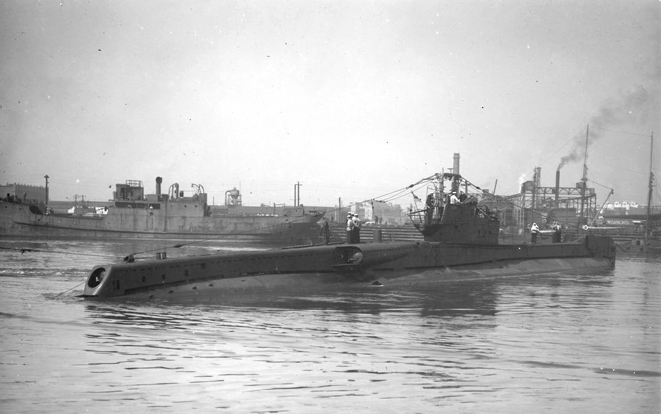 HMS Totem